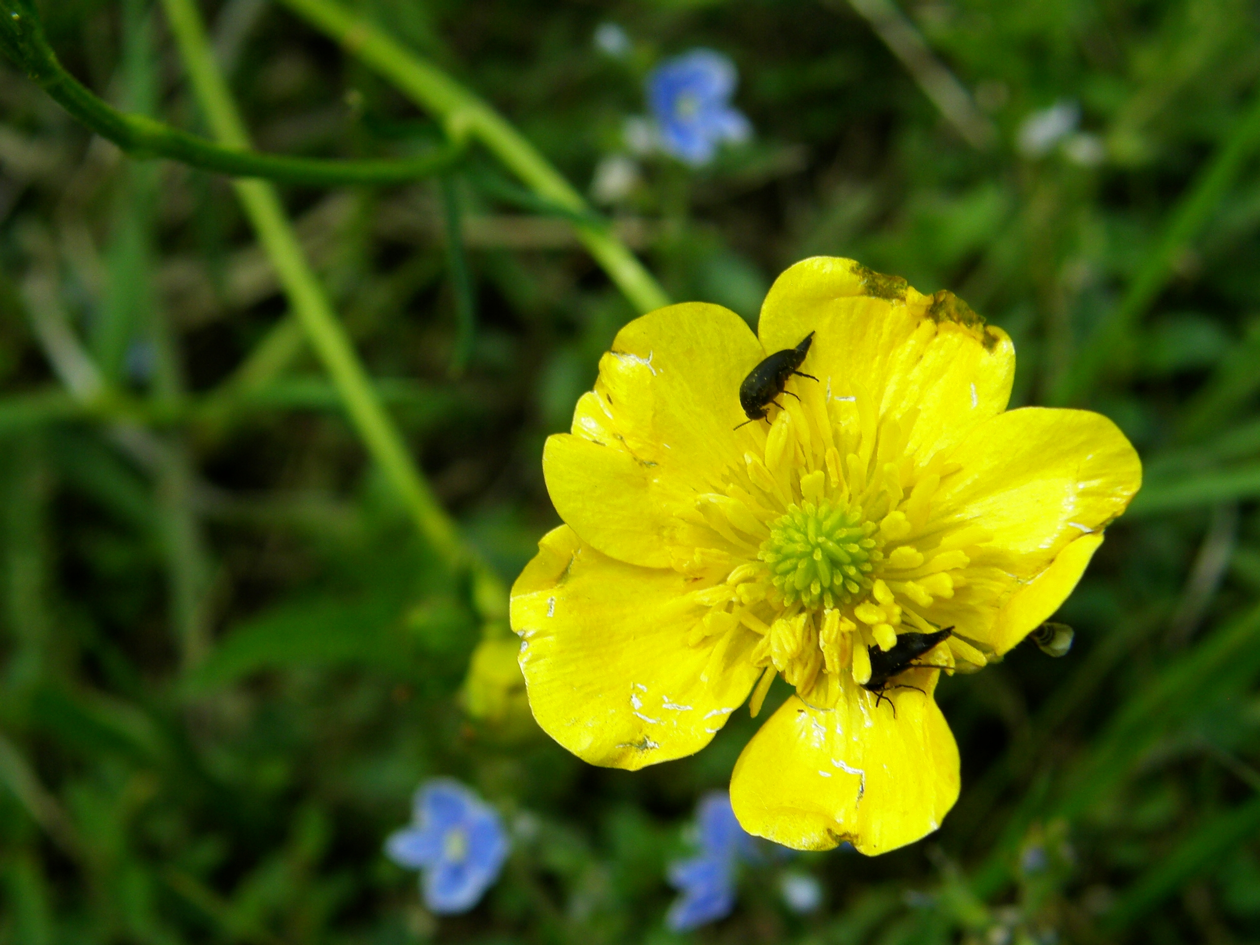 Natural monument Na Popovickém kopci